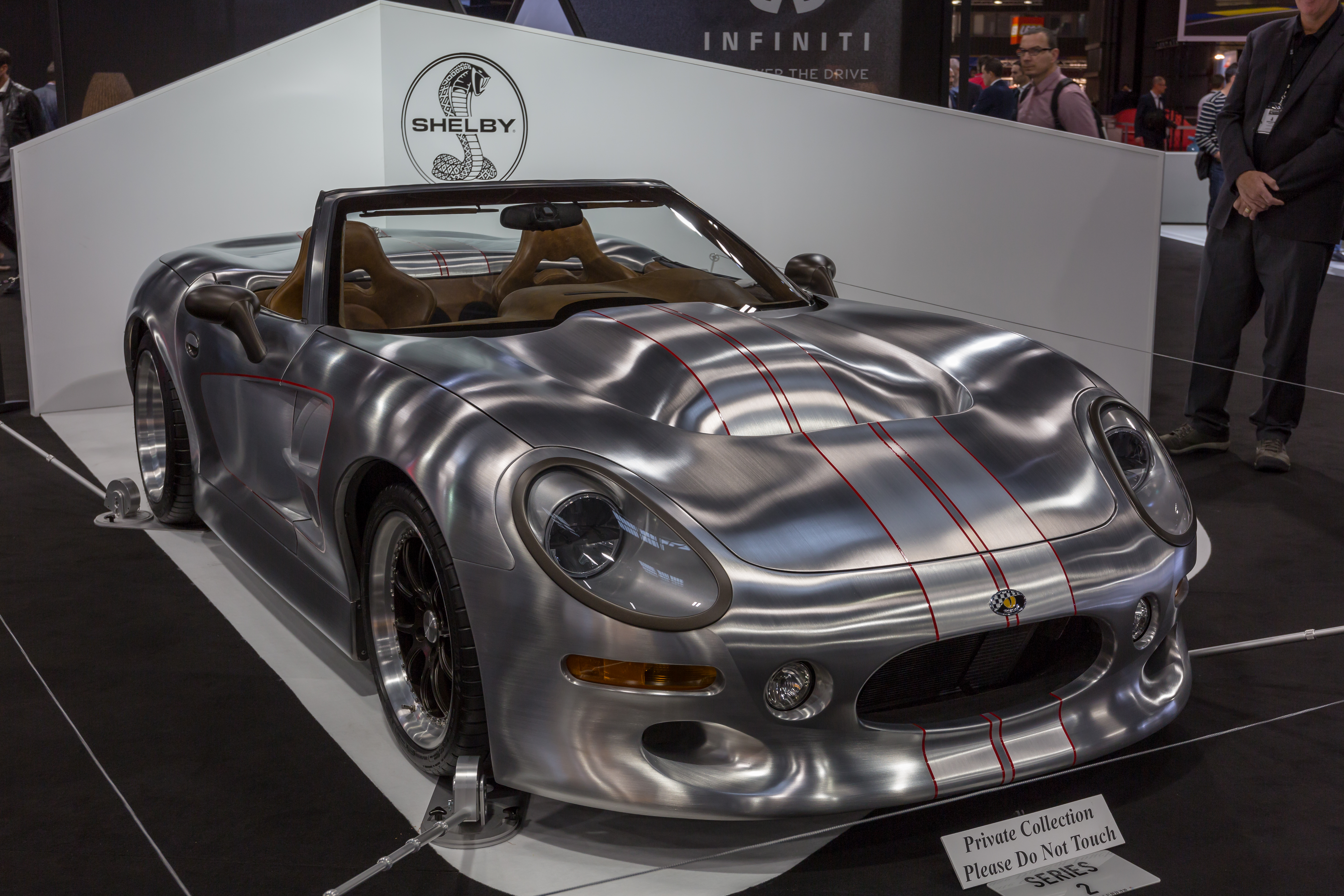 Shelby Series 2 with a brushed aluminium body at Mondial Paris Motor Show 2018